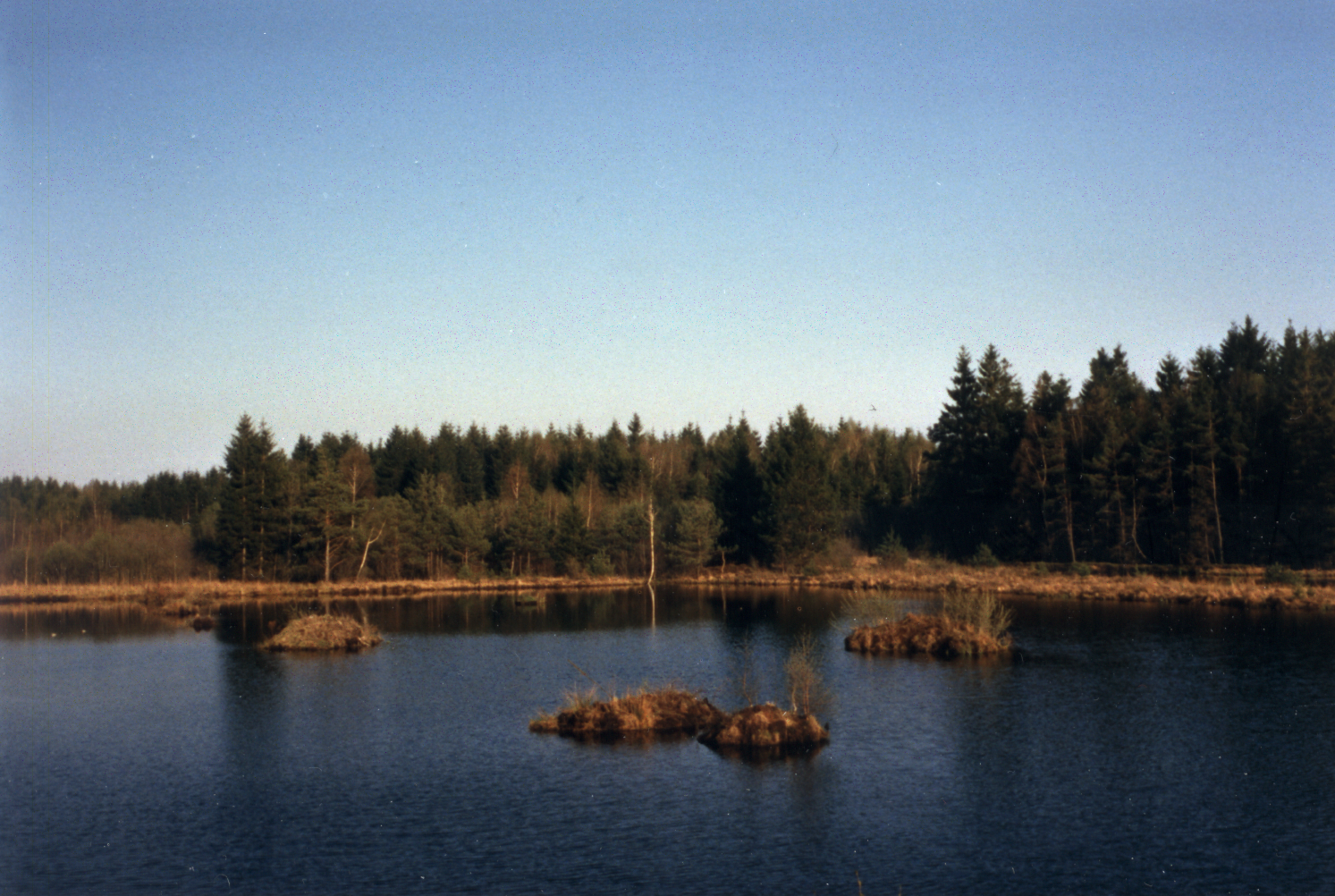 Peat mining near Bad Aibling ("Schuhbräu" moor, 1988)